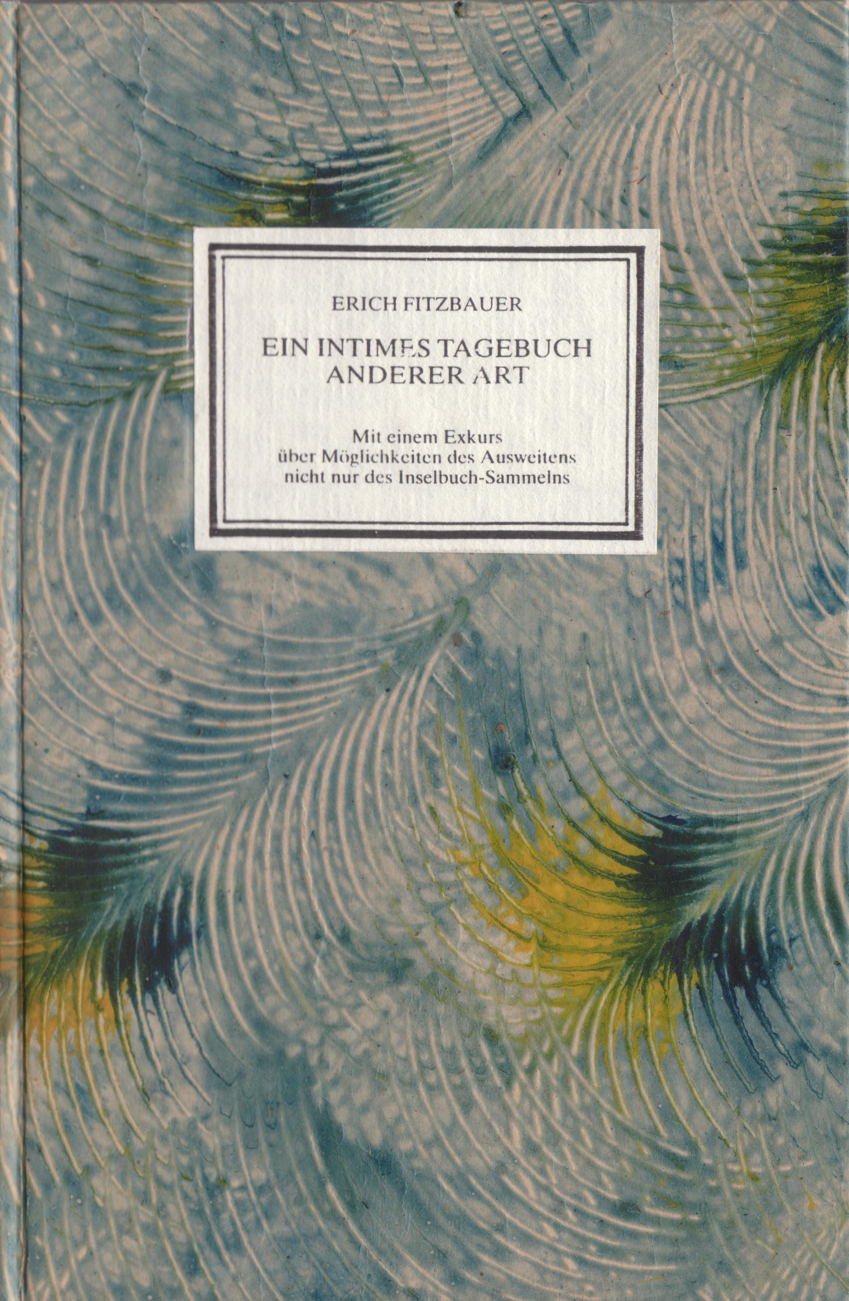 Erich Fitzbauer, Edition Graphischer Zirkel Nr. 55